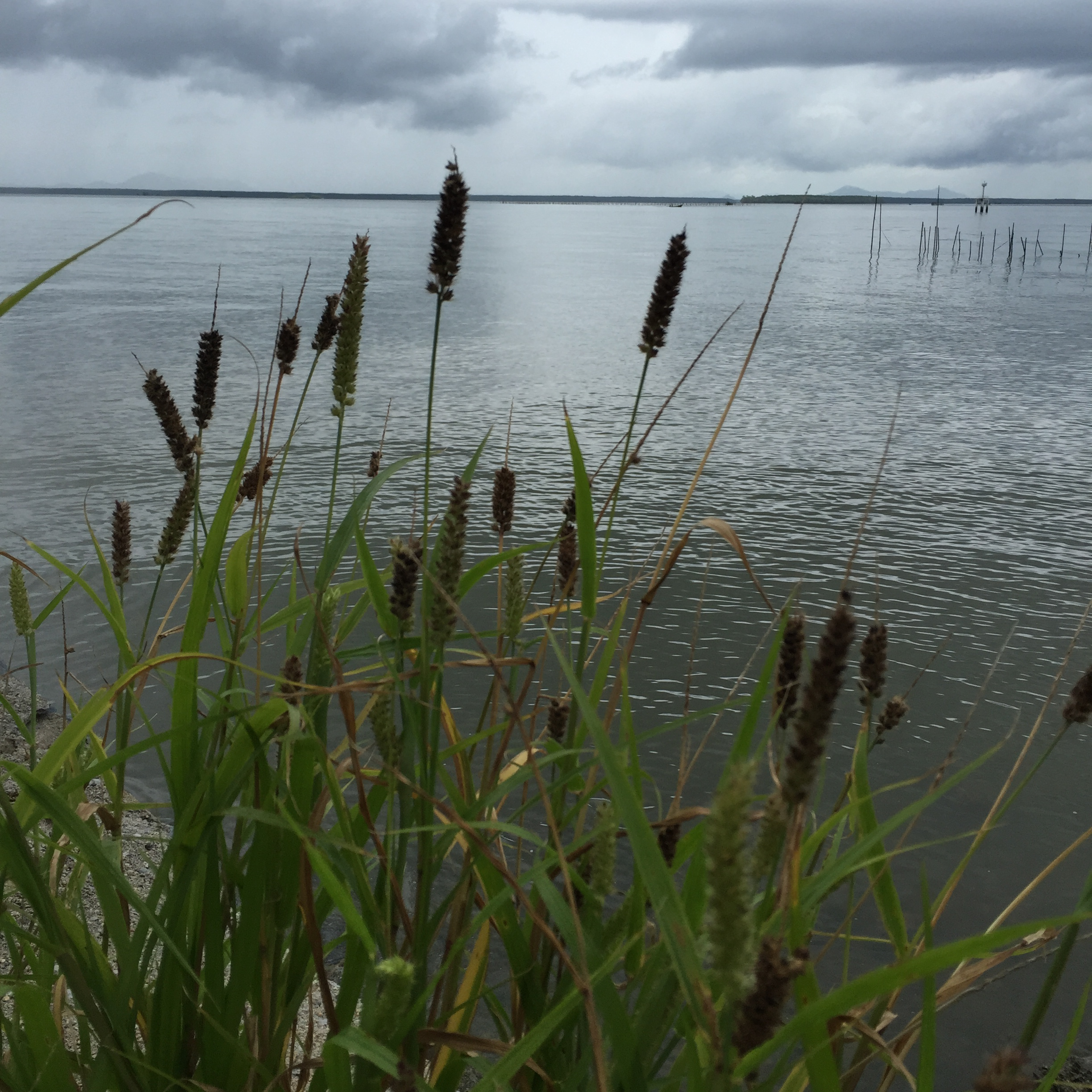 At Yong Star Cape